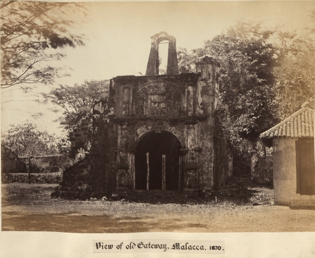 Description: View of old Gateway, Malacca. 1670. Location: Malacca, Malaya Date: 1860-1900 Our Catalogue Reference: Part of CO 1069/484. This image is part of the Colonial Office photographic collection held at The National Archives. Feel free to share it within the spirit of the Commons. Please use the comments section below the pictures to share any information you have about the people, places or events shown. We have attempted to provide place information for the images automatically but our software may not have found the correct location. For high quality reproductions of any item from our collection please contact our image library